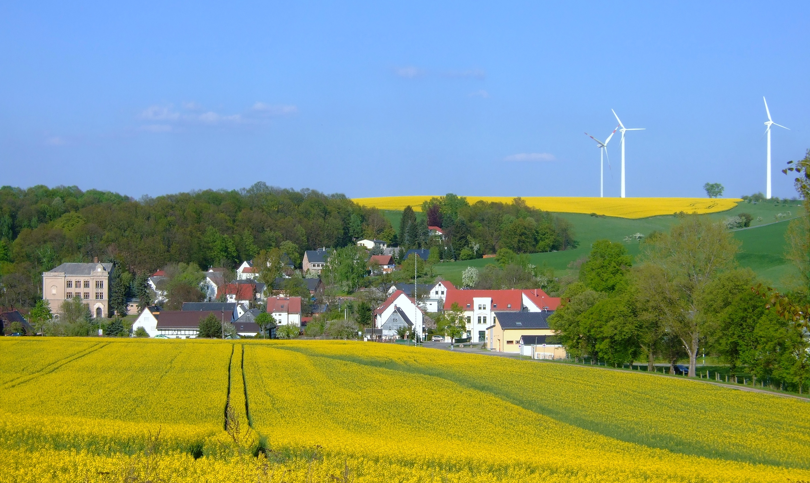 Langenhessen